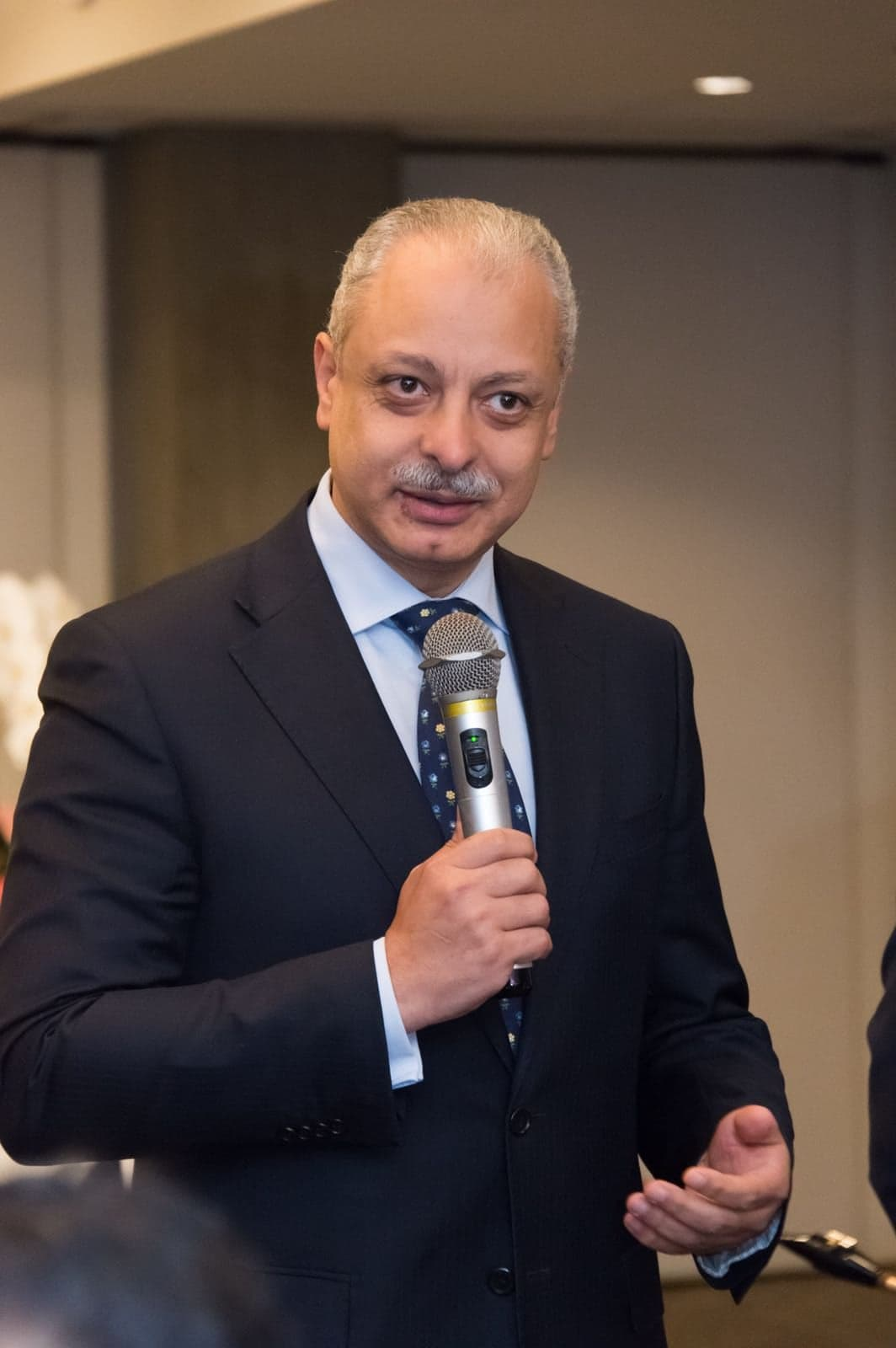 His Excellency Egyptian Ambassador Ayman Kamel delivering a speech.